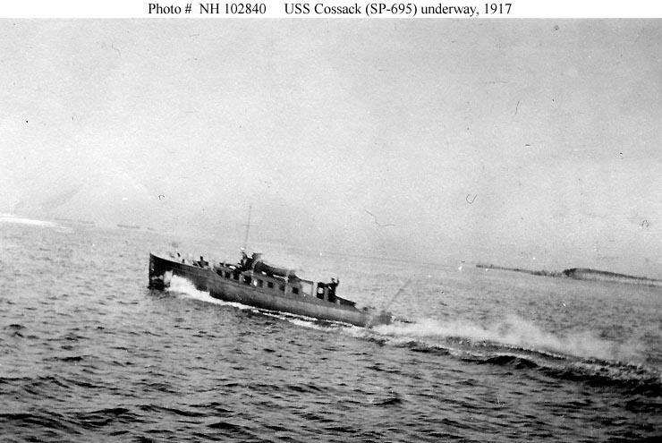 United States Navy patrol boat USS Cossack (SP-695) off Boston, Massachusetts during World War I